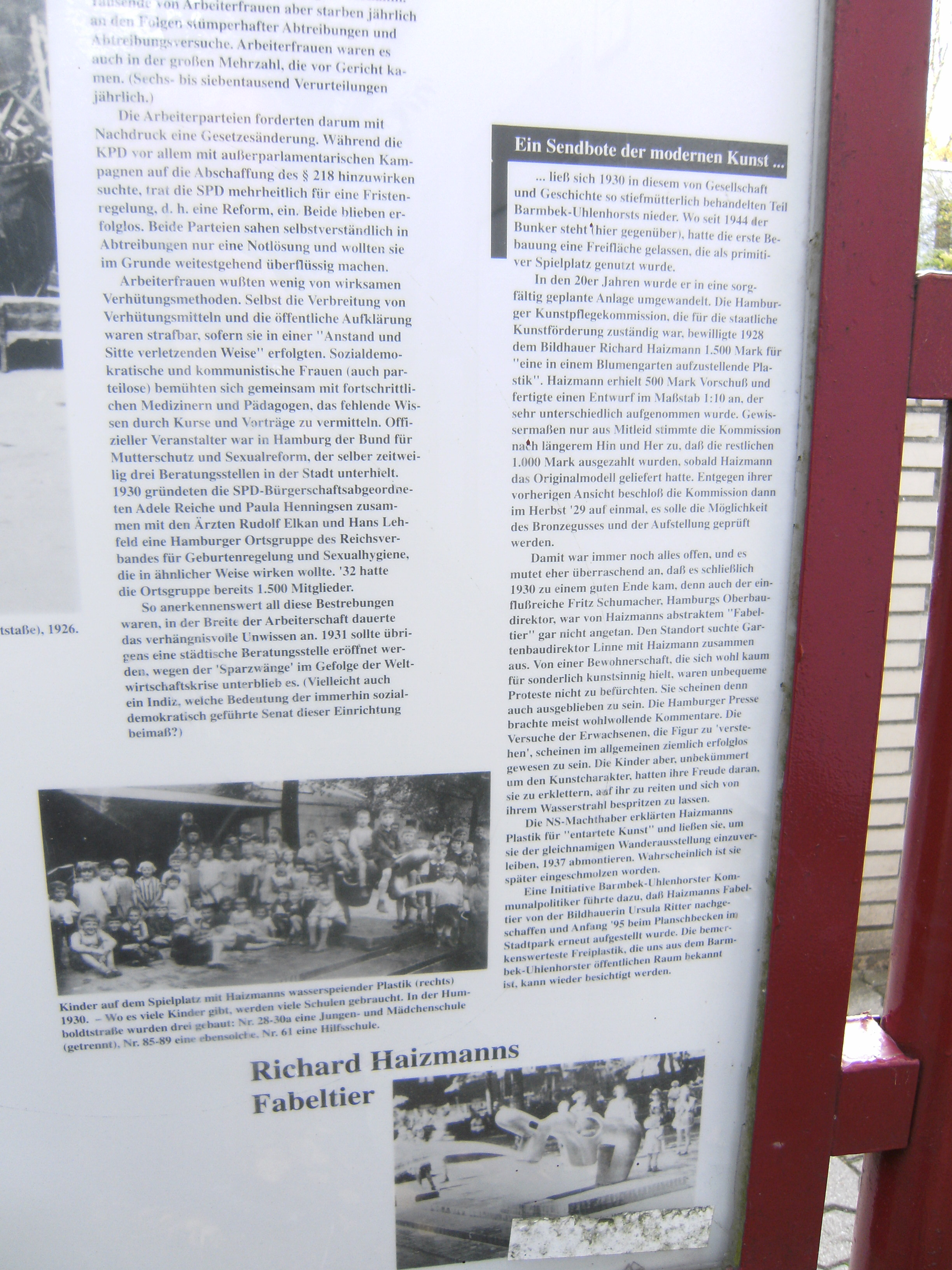 The original location for the sculpture named Wasserspeier of Richard Haizmann was in Humboldtstraße in Hamburg-Barmbek. On a plaque of Geschichtsverein Barmbek from 1984 near the school Humboldtstraße 89 details are given.